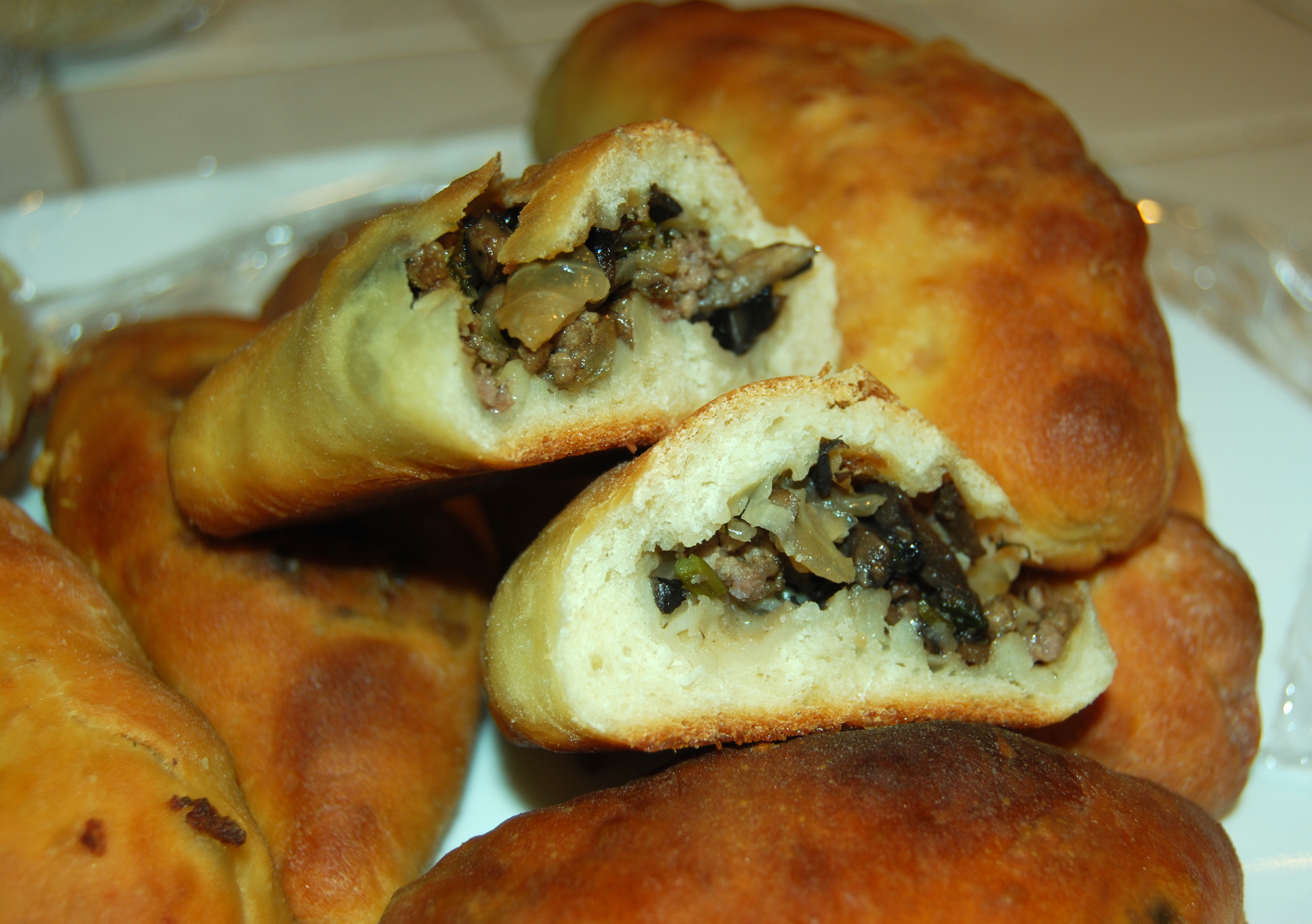 Pirozhki (plural of Pirozhok) are a traditional Russian and Ukrainian baked or fried pastry. These are made with meat, rice, onion and mushroom stuffing and yeast dough. They are generally served whole, but one is cut in order to show the stuffing.